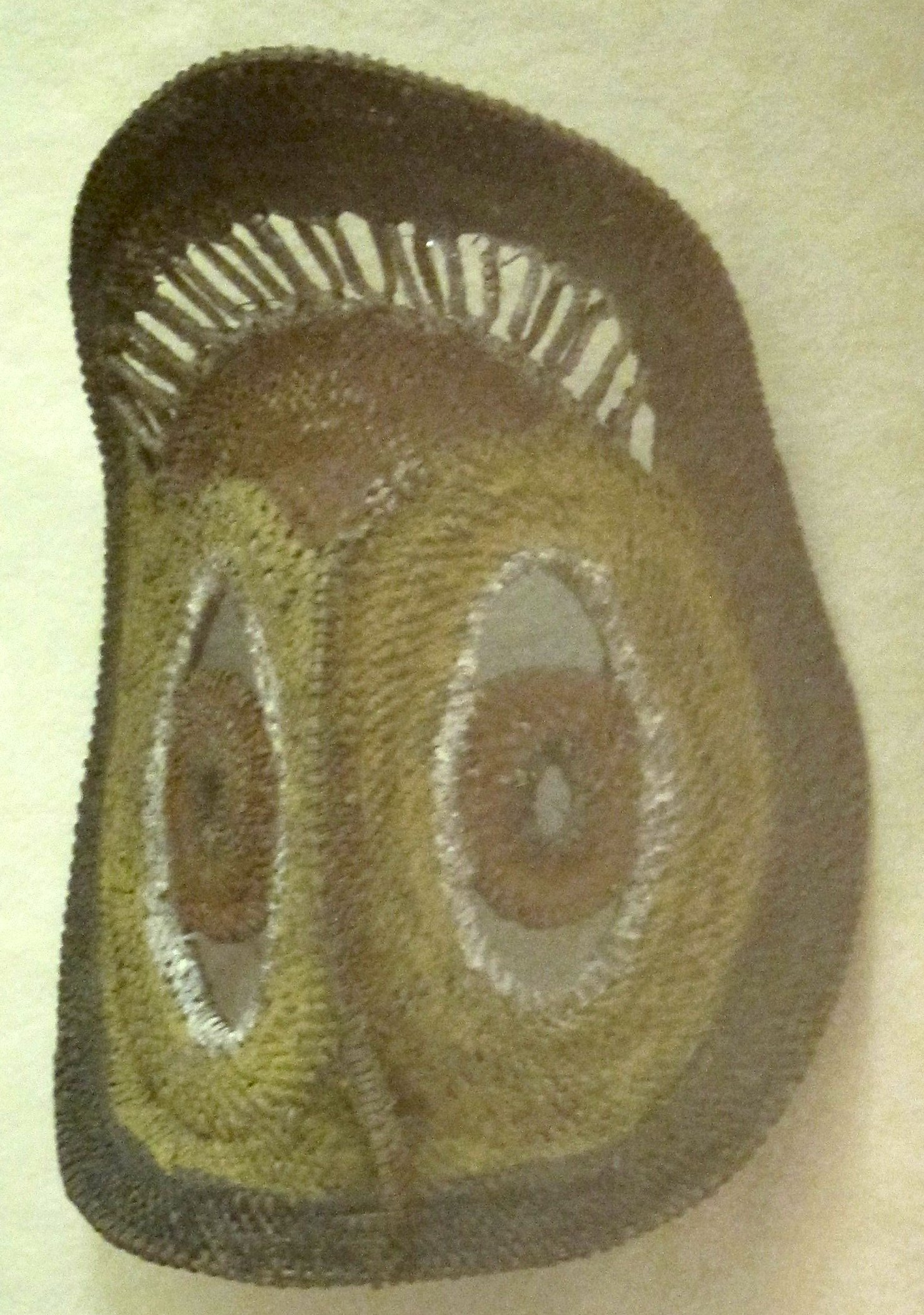 Mask for yams, Papua New Guinea, Maprik district, Southern Abelam people, basketry (fern stems) and earth pigments, Honolulu Academy of Arts